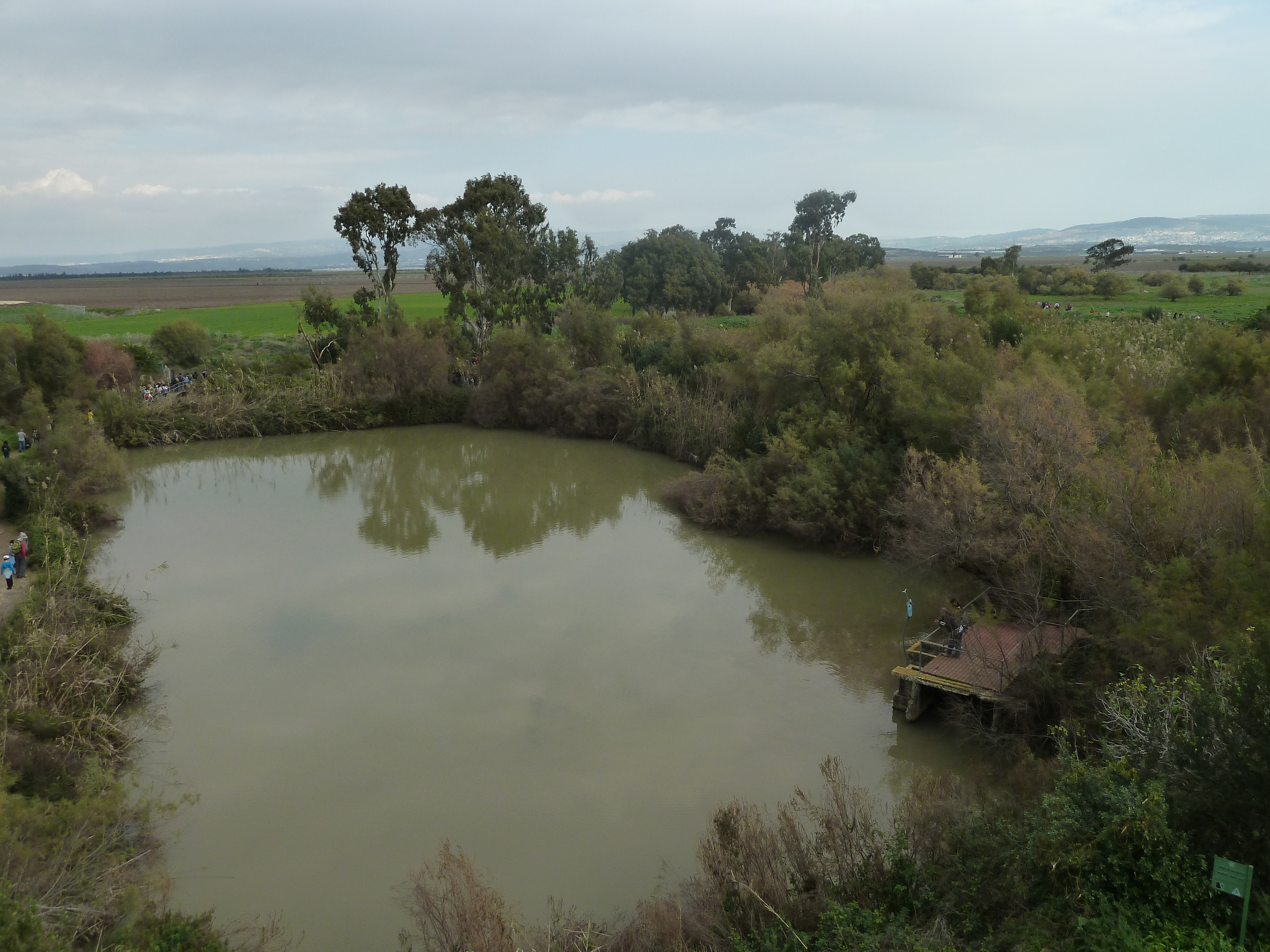 Ein Afek, Israel